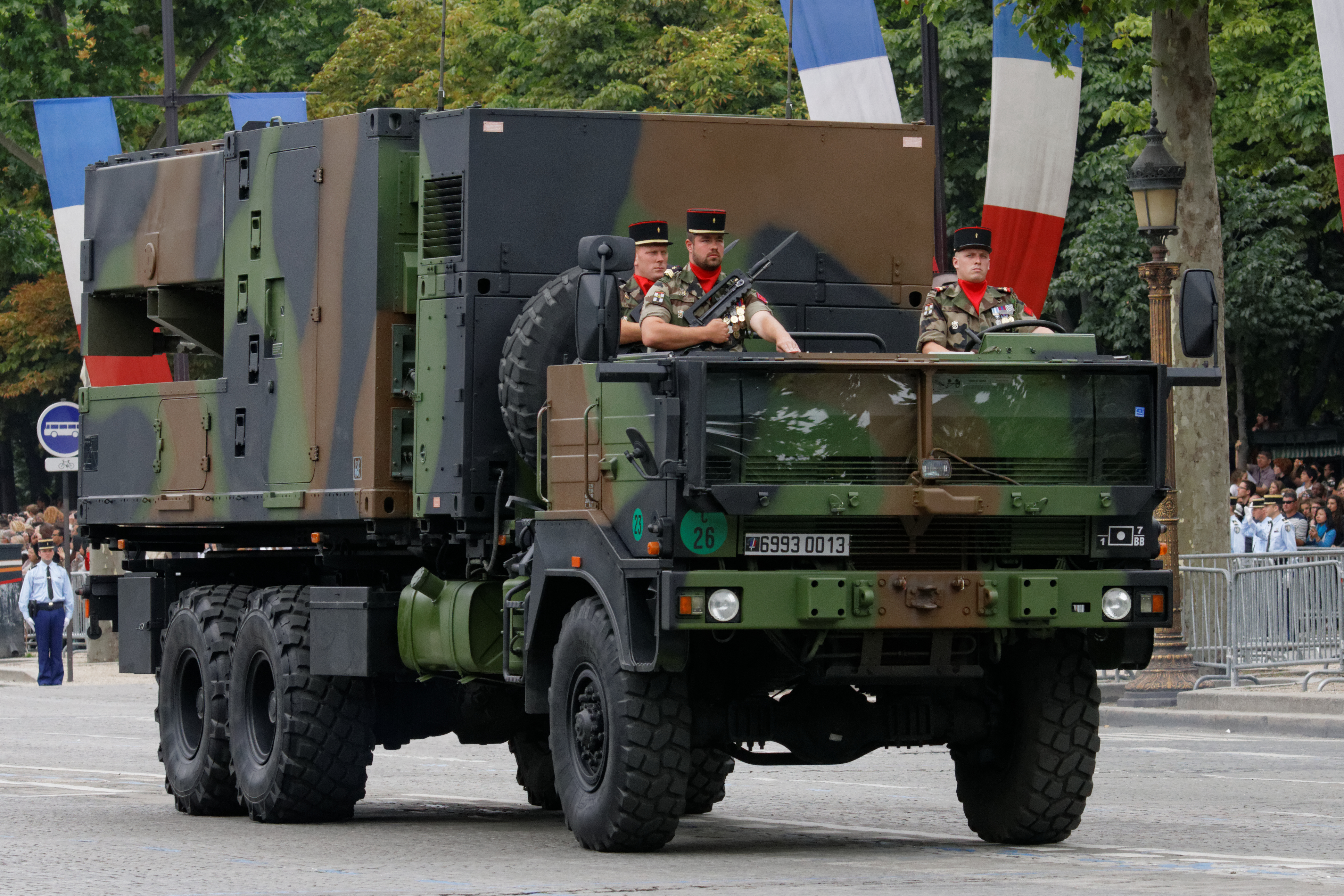 Bastille Day 2014 military parade on the Champs-Élysées in Paris. Motorised troops. COBRA counter battery radar.